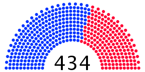 Current apportionment in the US House of Representatives